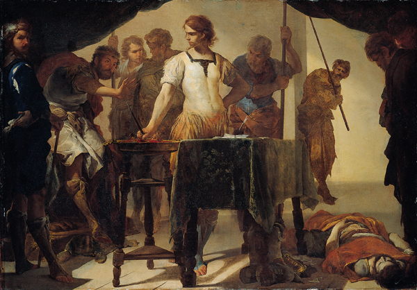 Gaius Mucius Scaevola Confronting King Porsenna